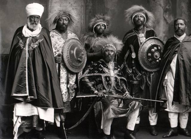 Makonnen Wolde Mikael seated, Memhir Gebre-Egziabher, Fitawrari Haile Selassie Abayneh, Kentiba Gebru Desta, Fitawrari Aba Tabor and Mikael Birru at the coronation of King Edward VII in England.jpg